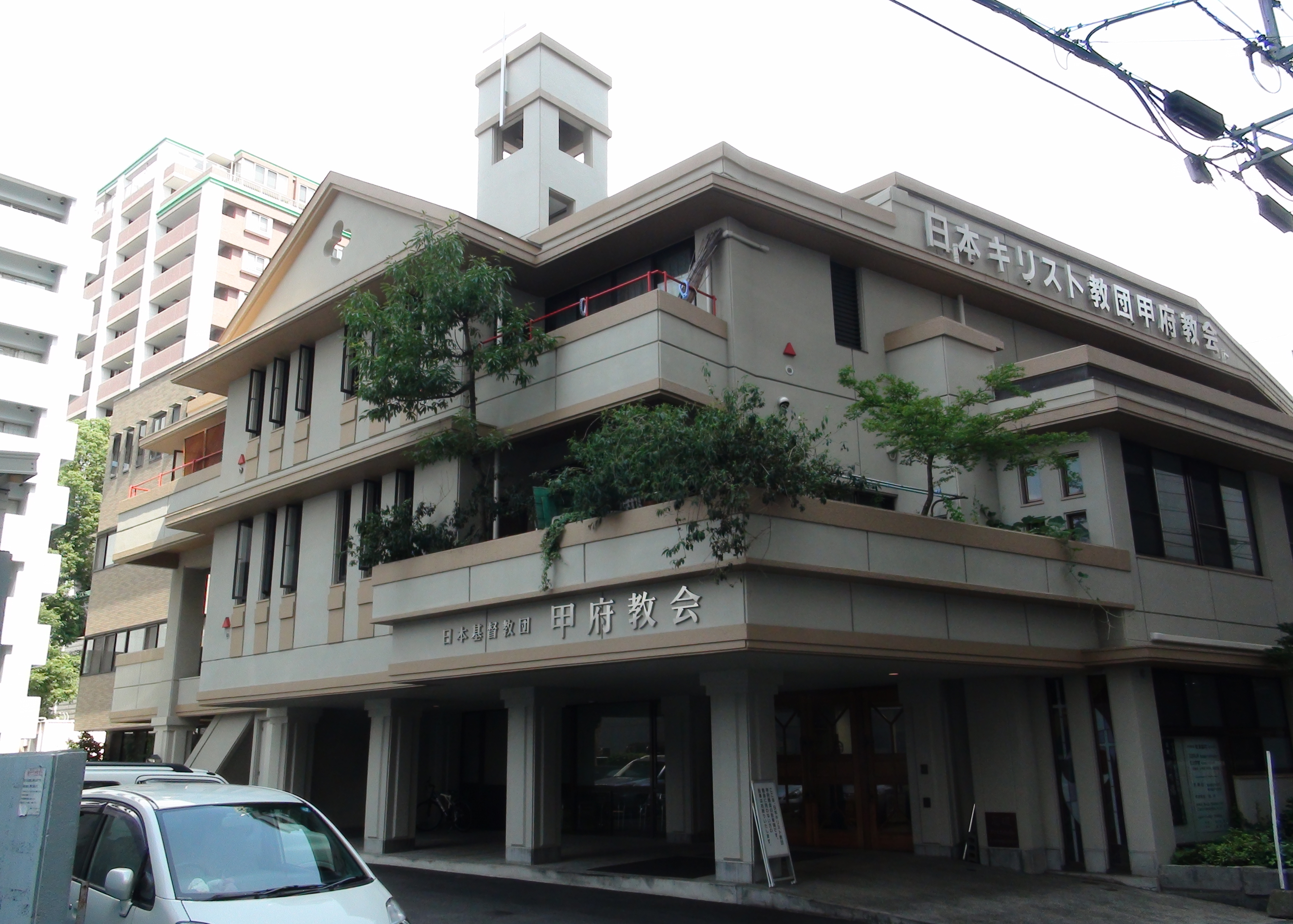 Kofu Christ Church. United Church of Christ in Japan.